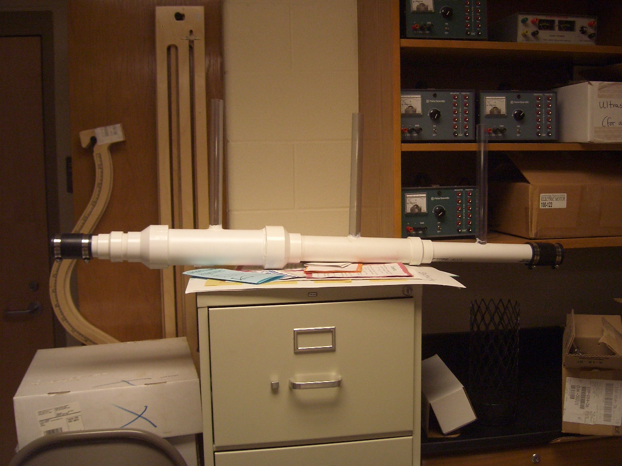 Venturi tubes are used in pressure and fluid dynamics lab experiments. This apparatus was built by a student of Mr. Enns, who teaches advanced and AP Physics courses.